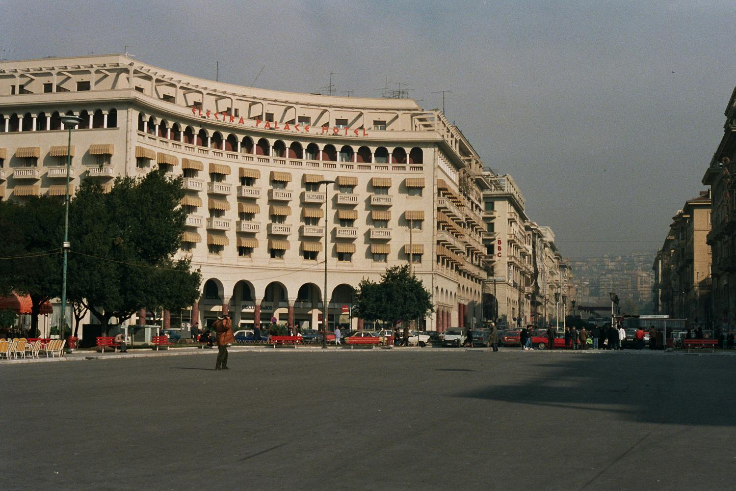 Electra Palace Hotel, Chess Olympiad 1988 in Thessaloniki, Photographer Gerhard Hund.